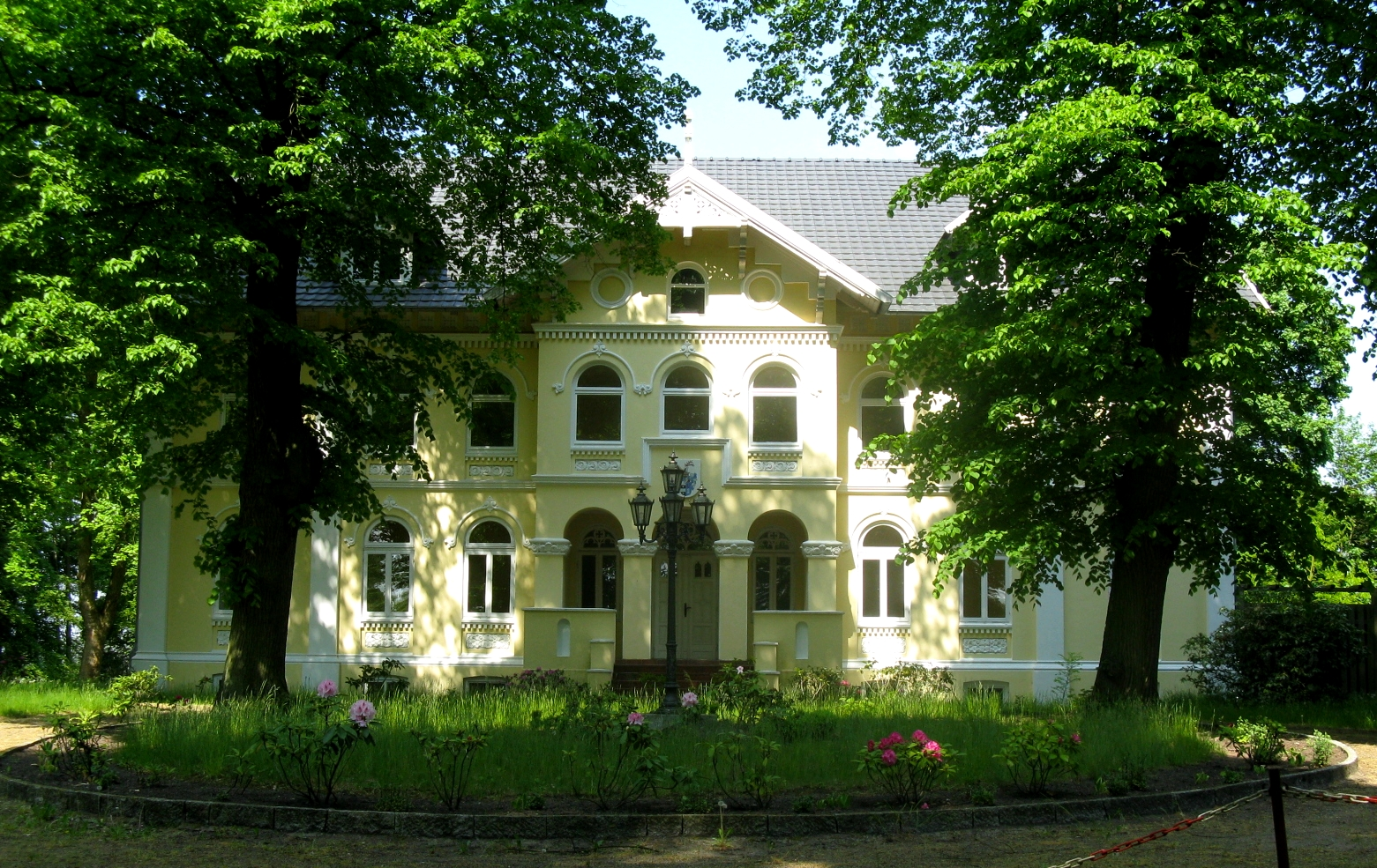 Manor house in Garlitz, district Ludwigslust-Parchim, Mecklenburg-Vorpommern, Germany